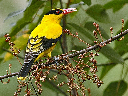 Black-naped Oriole